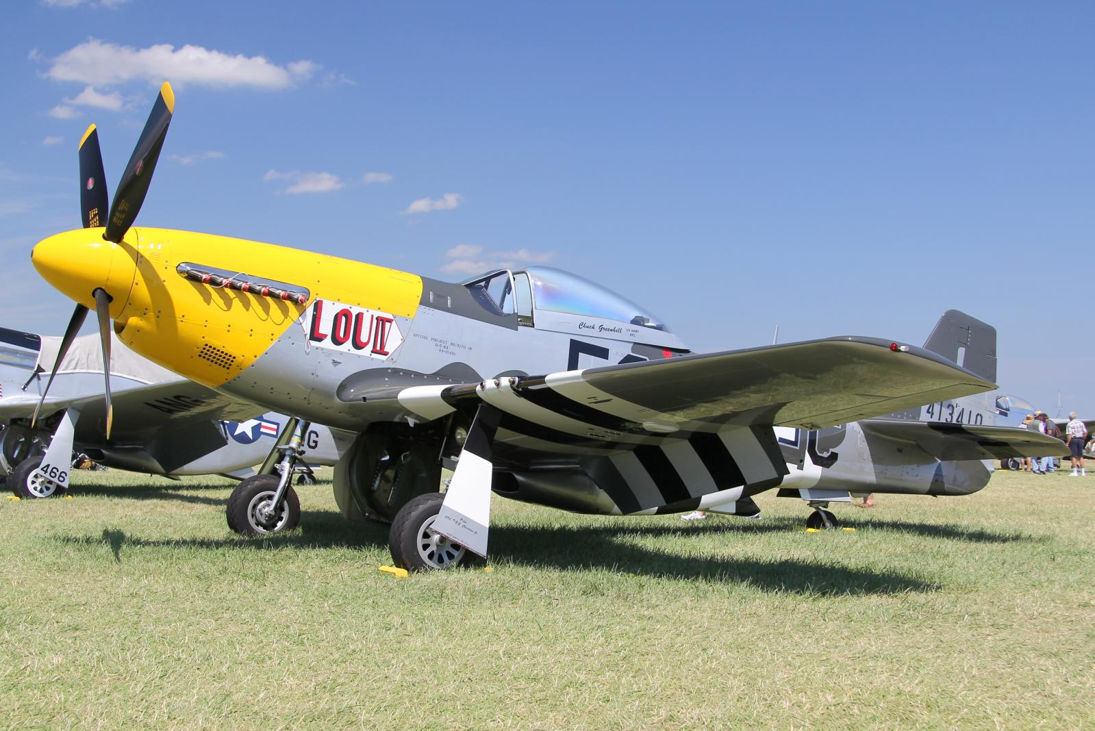 NL151MC / 413410/E2-C A civilian-modified P-51 built for export